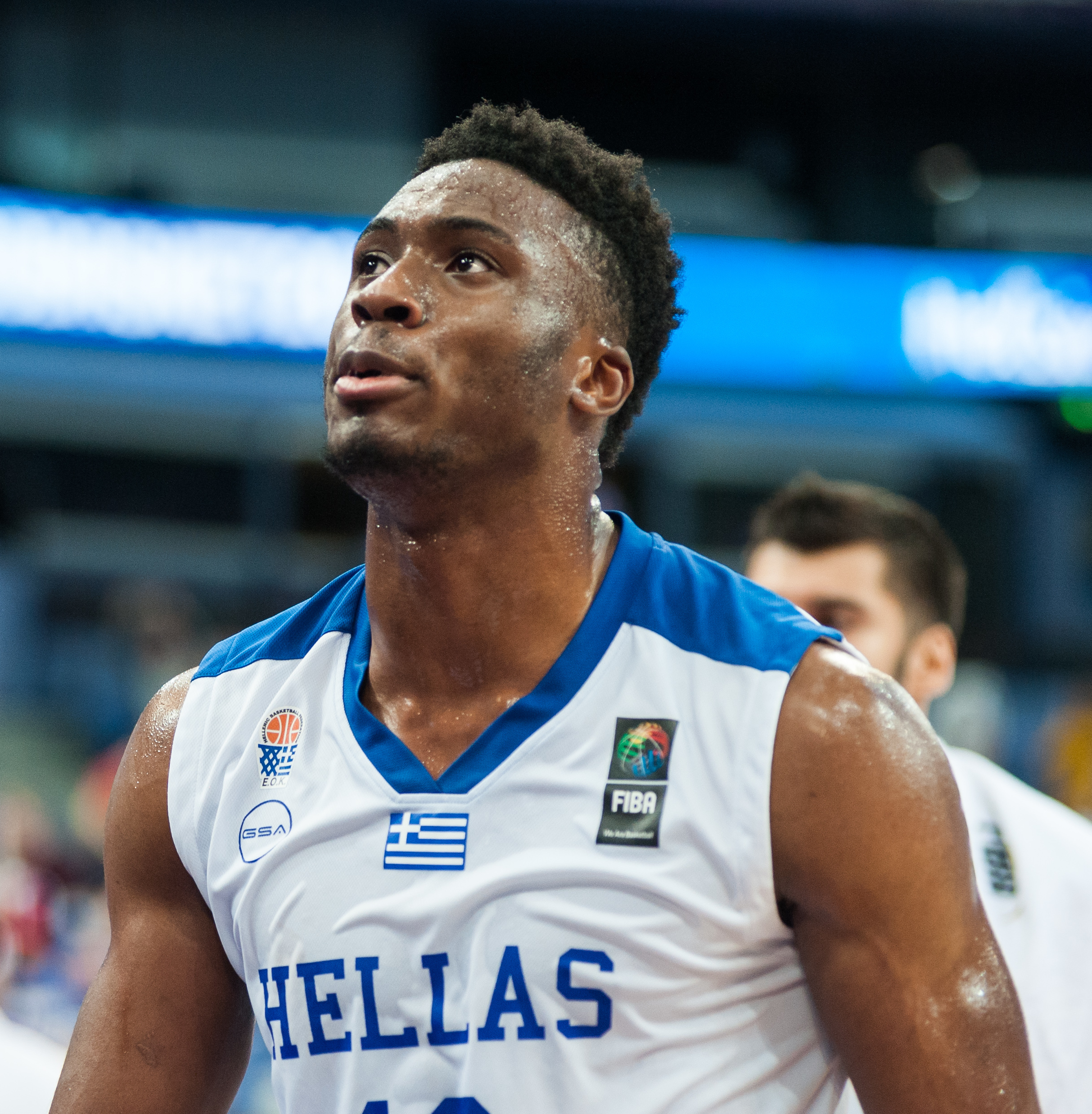 EuroBasket 2017 Group A game between Greece and France at Hartwall Arena in Helsinki, Finland.